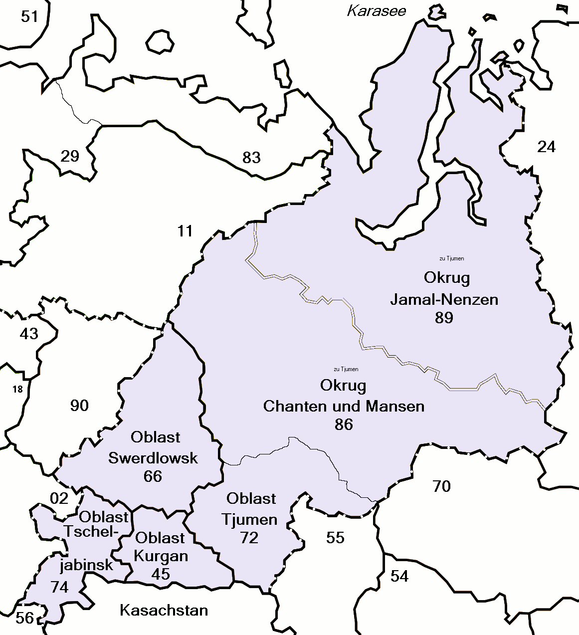 Map of Russia with merged subjects (01.01.2008, last merger Irkutskaya oblast+Ust-Orda Buryat autonomous district.) The subjects are grouped and tagged with their respective ISO 3166-2:RU code for easy creation of derivative maps.